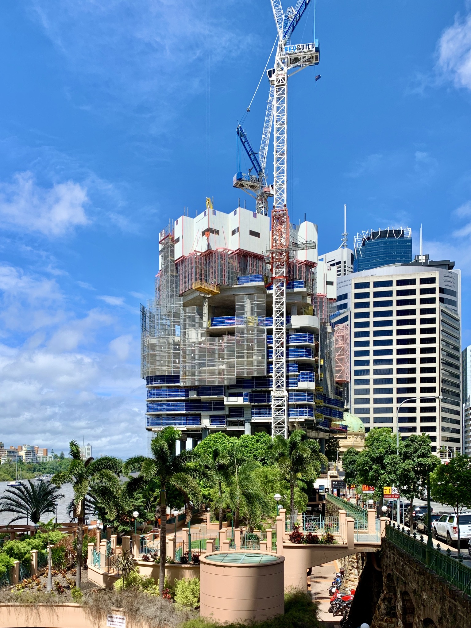 443 Queen Street under construction in March 2020, Brisbane, Queensland